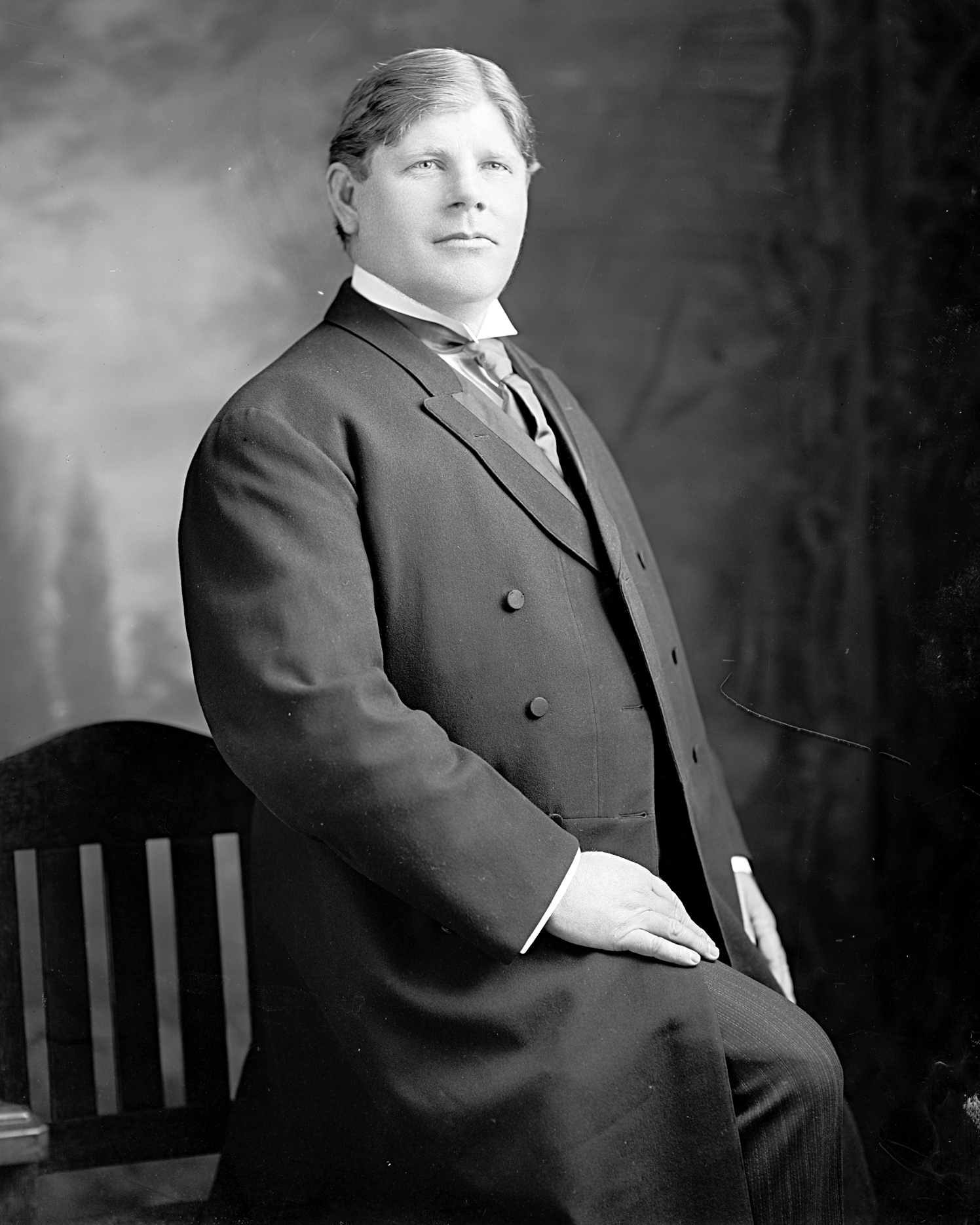 James Andrew Beall, US Representative from Texas